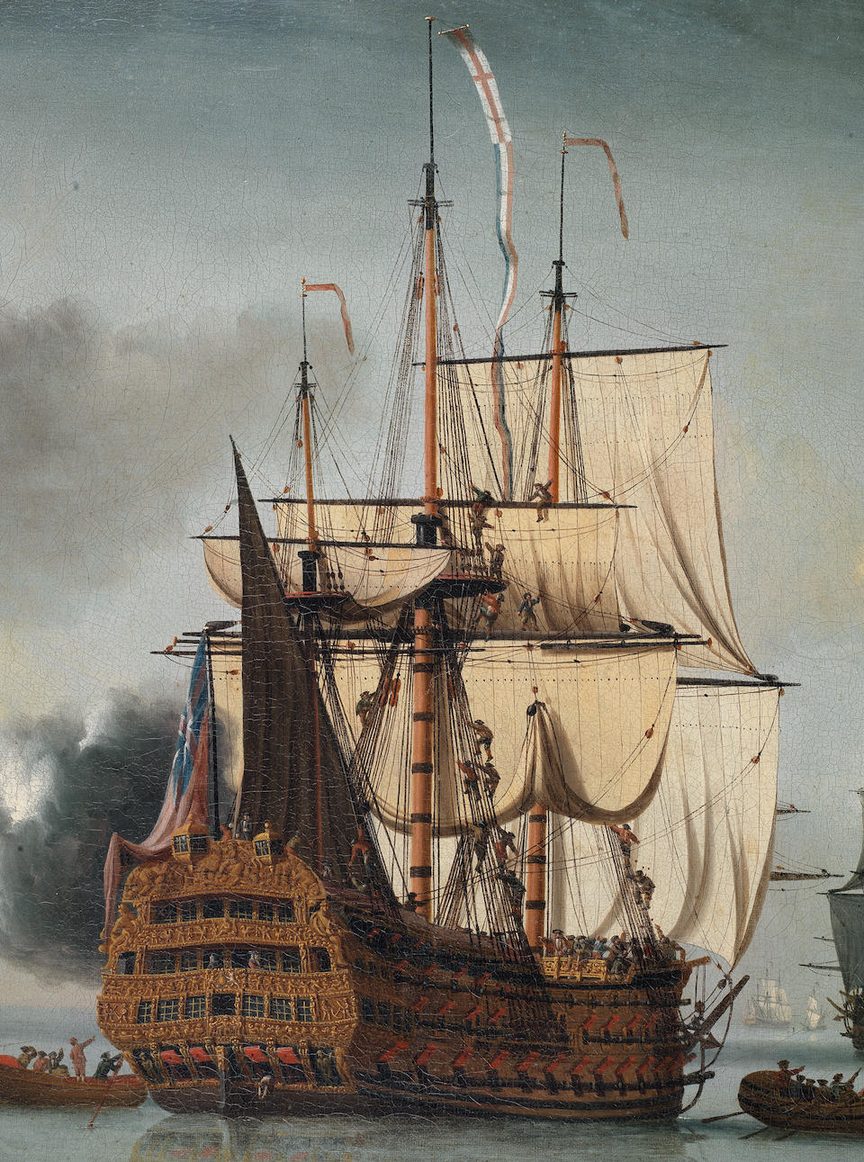 A detail taken from 'The flagship Royal Sovereign saluting at the Nore, by L de Man' signed 'LD*Man' (lower left) oil on canvas